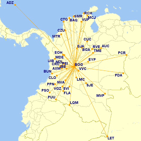 El Dorado international airport national destinations